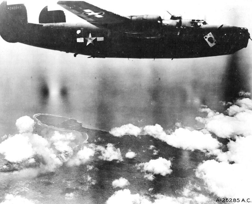 "The Ace O' Spades" B-24D-115-CO Liberator s/n 42-40945 63rd Bomb Squadron, 43rd Bomb Group "Ken's Men", 5th Air Force. Photo taken: 20 December 1943